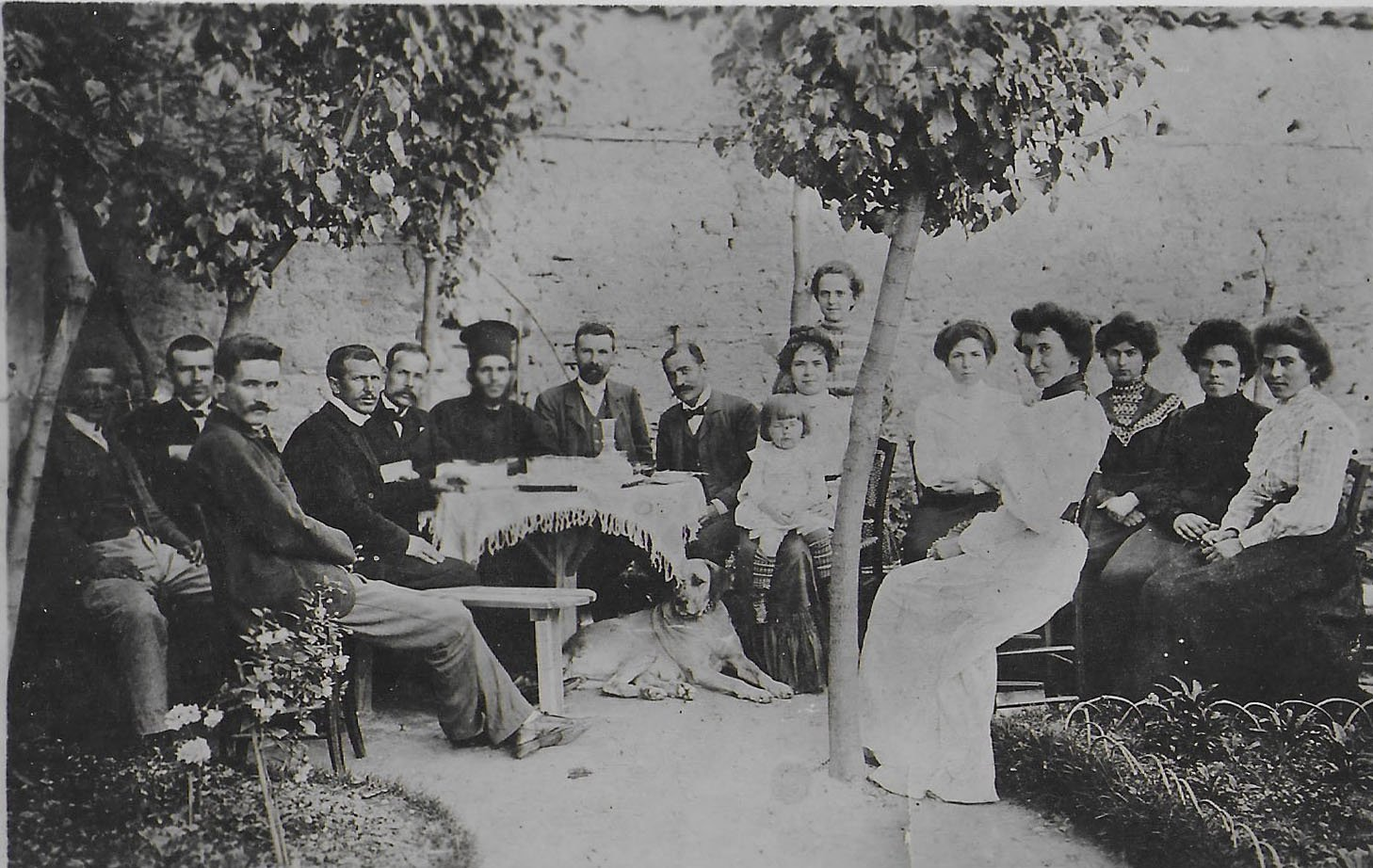 Georgi Kulishev, Tencho Tenchov, Nikola Hadzhitashov, Nikola Surlyovski, Anton Kostov, Popevtimov, Evtim Sprostranov, Dimitar Mihaylov and M. Hadzhipopova, Ekaterina Badacheva, Ekaterina Telyatinova, M. Poppetrova in the house of the Russian emissary Voronin (house of Tenchov family) in Doyran.